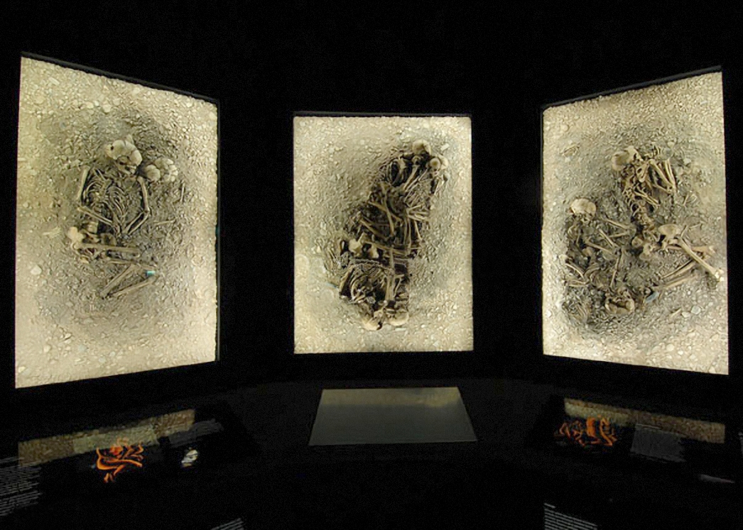 Display of the Eulau graves at Landesmuseum für Vorgeschichte Sachsen-Anhalt in Halle, Germany